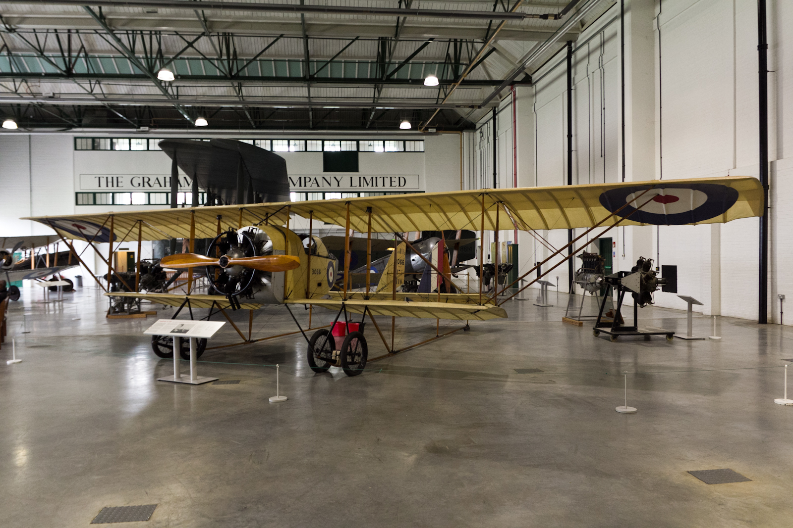 Caudron G.3 at the RAF Museum in Hendon